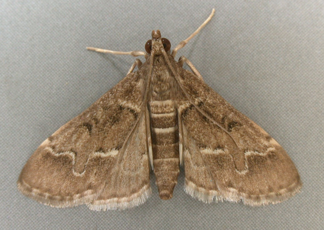 Duponchelia fovealis, Trawscoed, North Wales, July 2006